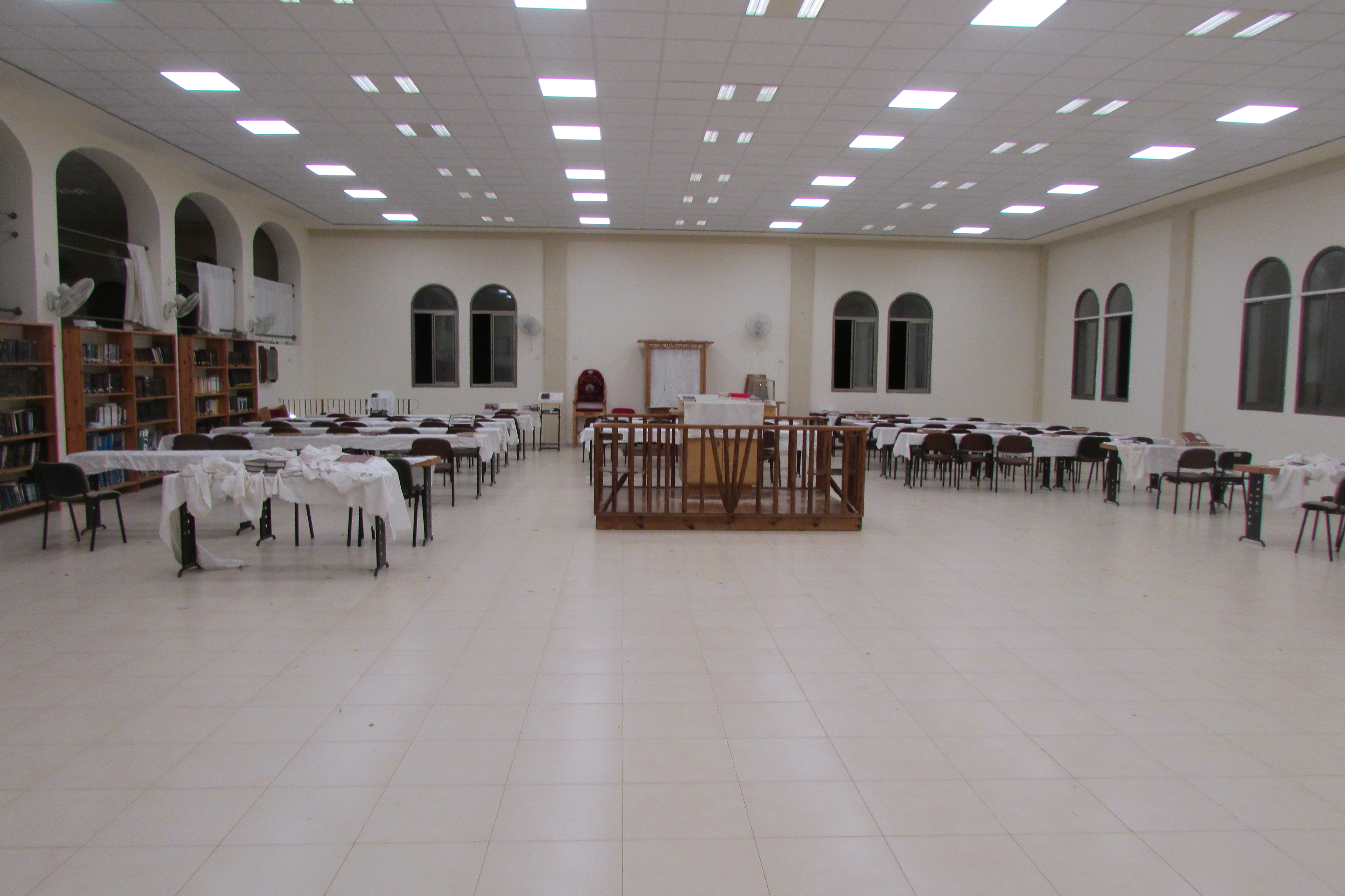 Synagogue in Yitzhar